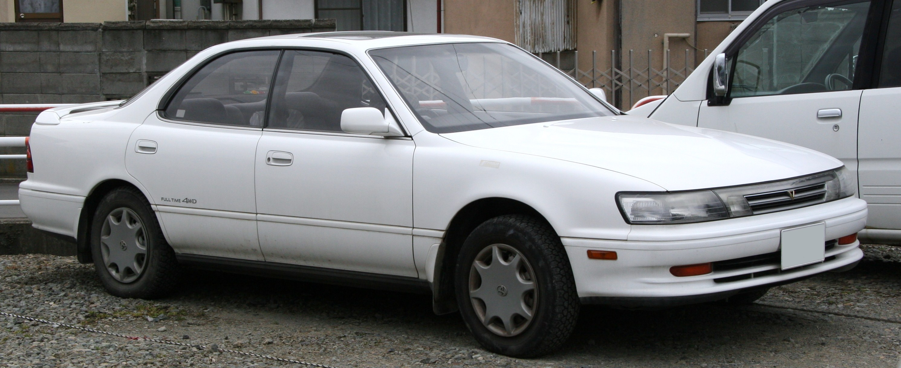 Toyota Vista